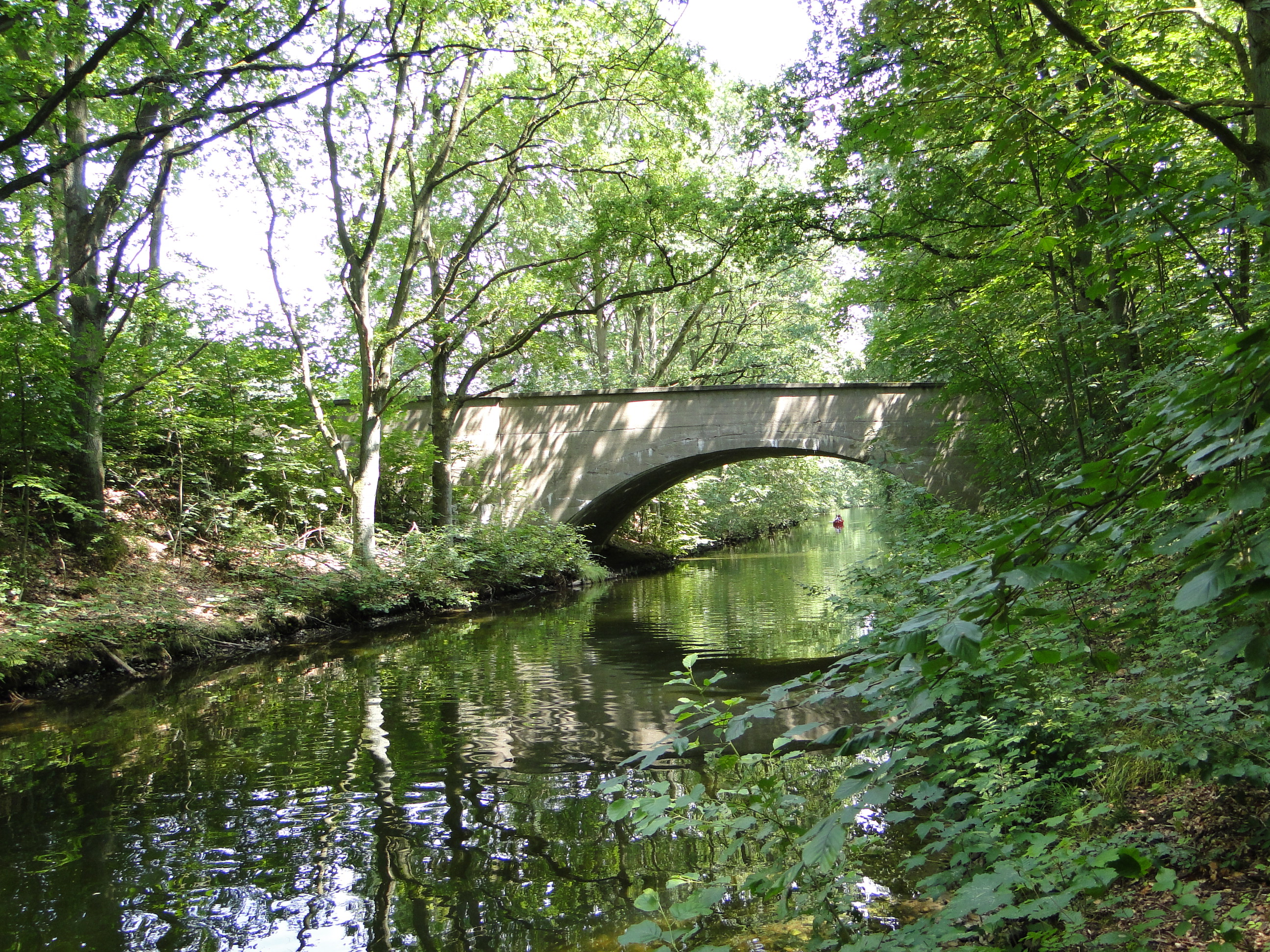 Road bridge over the Schaalseekanal in/near Kogel Siedlung, disctrict Herzogtum Lauenburg, Schleswig-Holstein, Germany